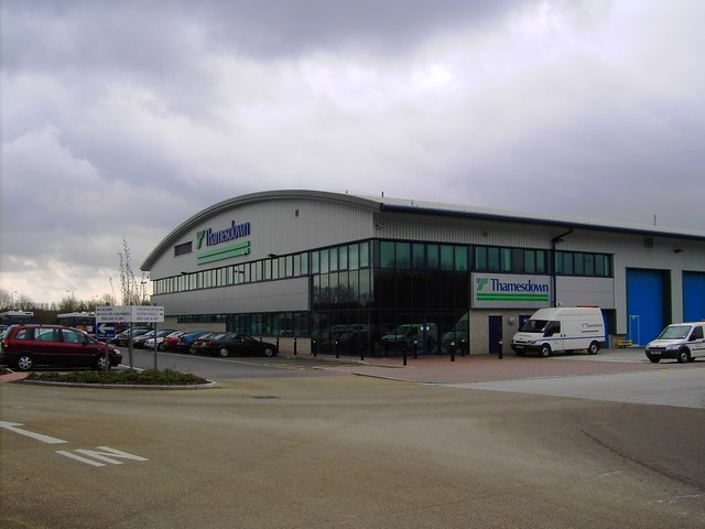 Thamesdown Transport depot, Barnfield Road, Swindon (2) Another view of the depot. The name 'Thamesdown' is derived from the name of the local council until 1997 when it reverted to being Swindon Borough Council. The bus company is part-owned by the council although it is run as a commercial operation.